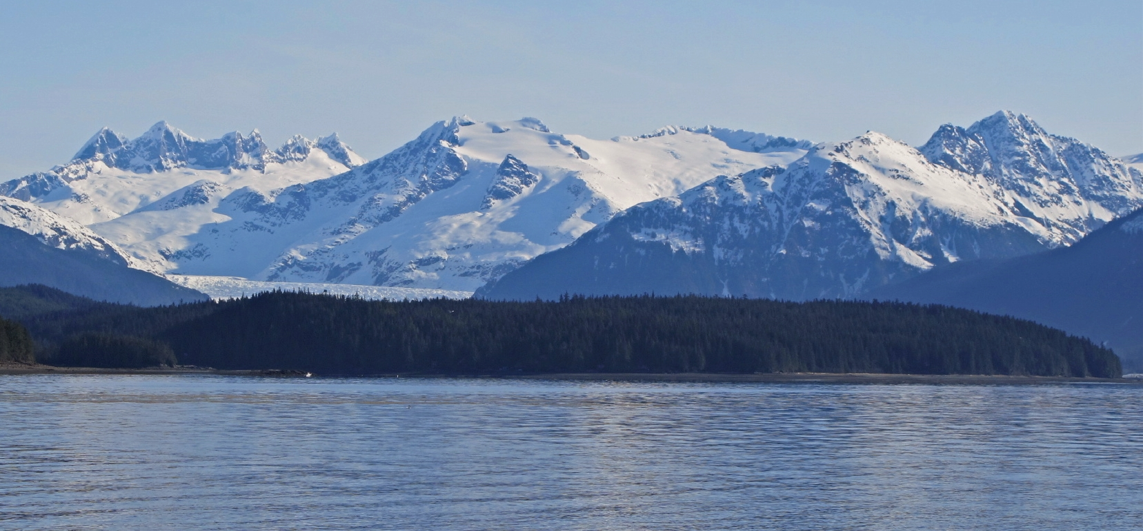 Left to rightː Mendenhall Towers, Mt. Wrather, Bullard Mountain, Nugget Towers seen from Douglas Island, Juneau, Alaska. Photo by Wayne Owen.